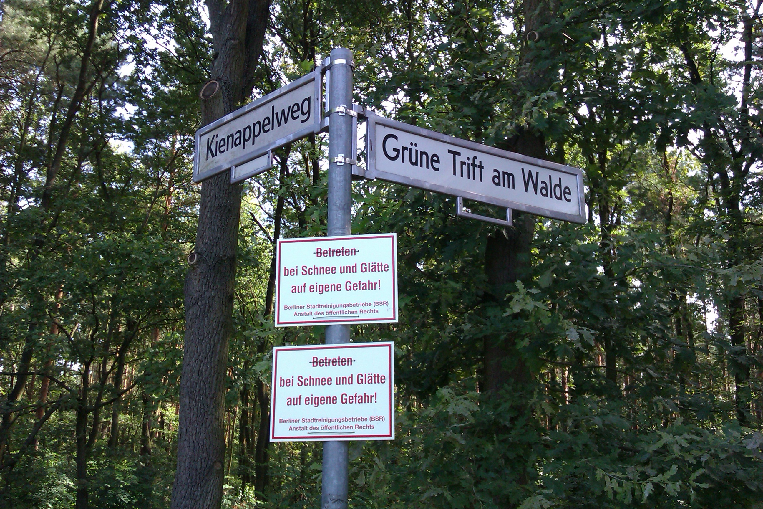 Just to make sure...